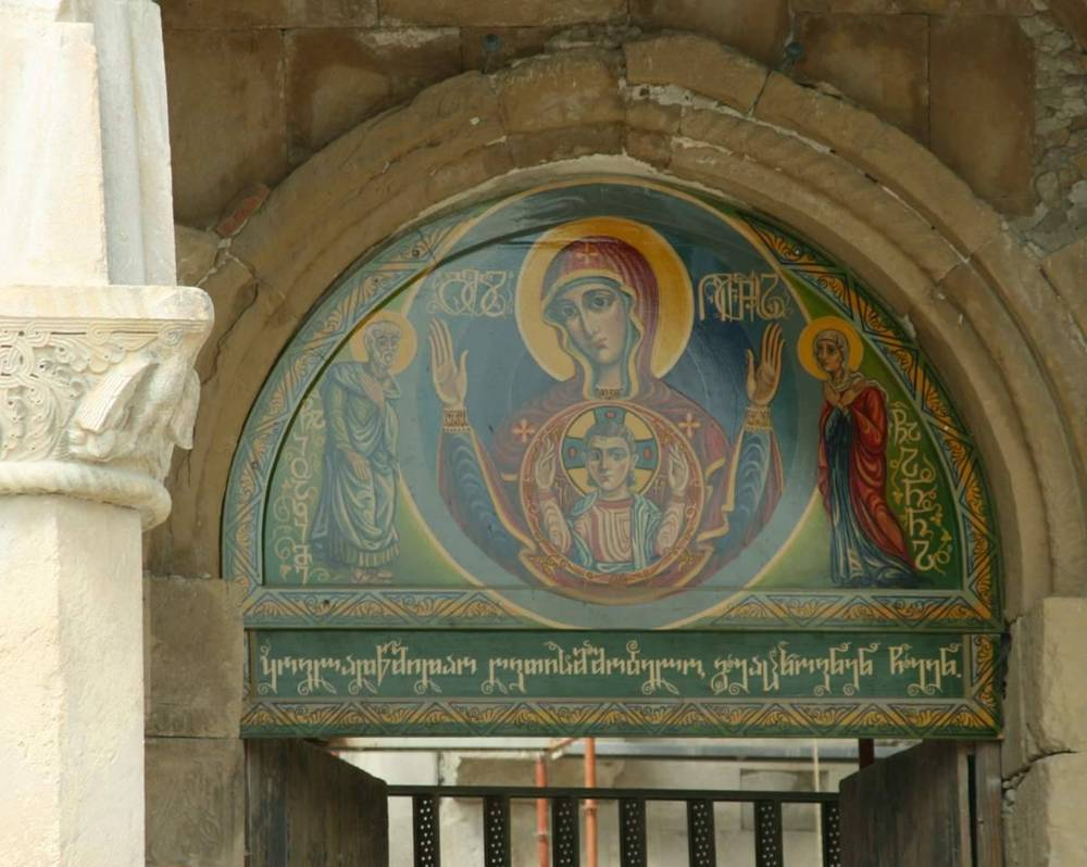 Bagrati cathedral.